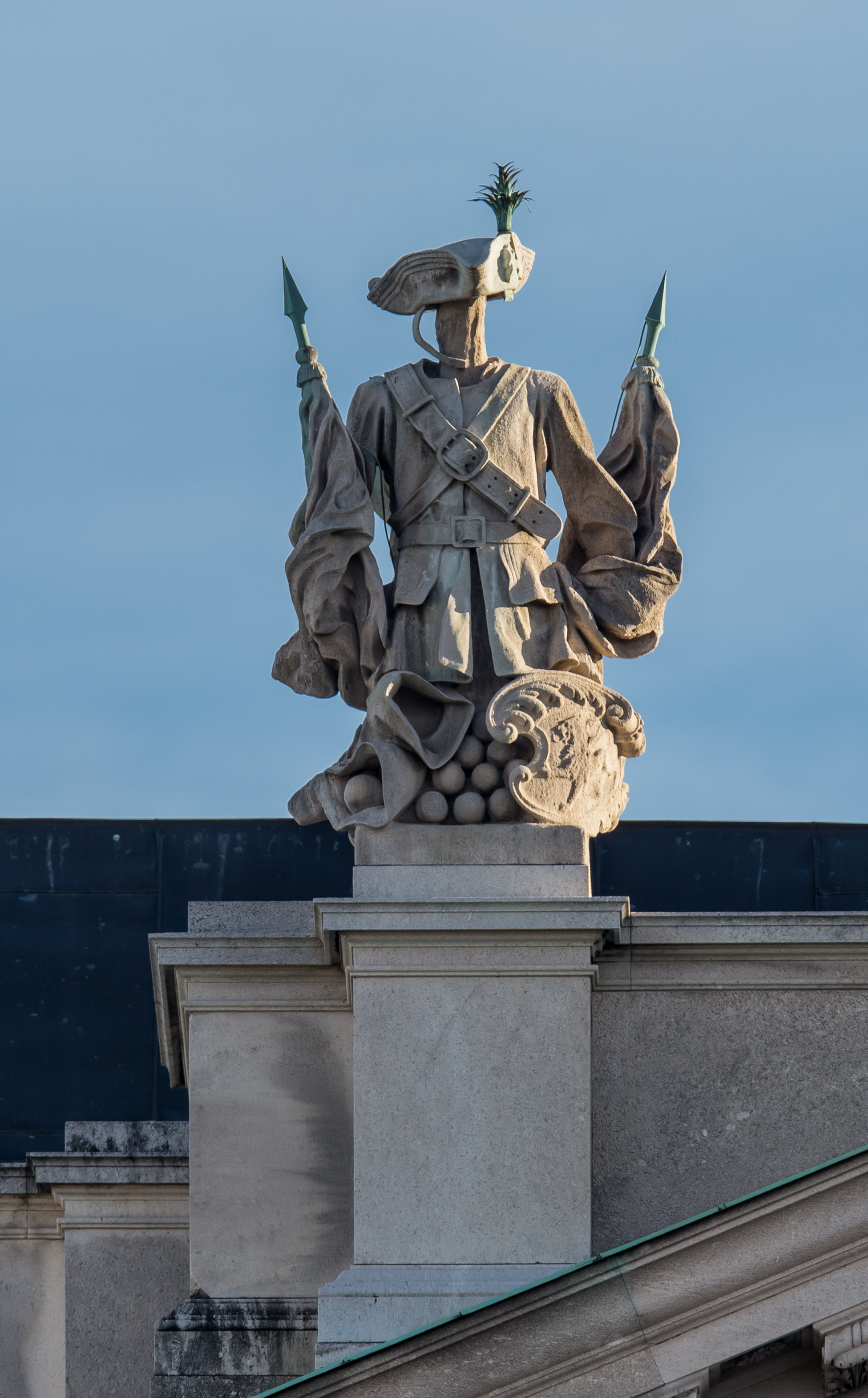 Figures at the neue Burg, Vienna